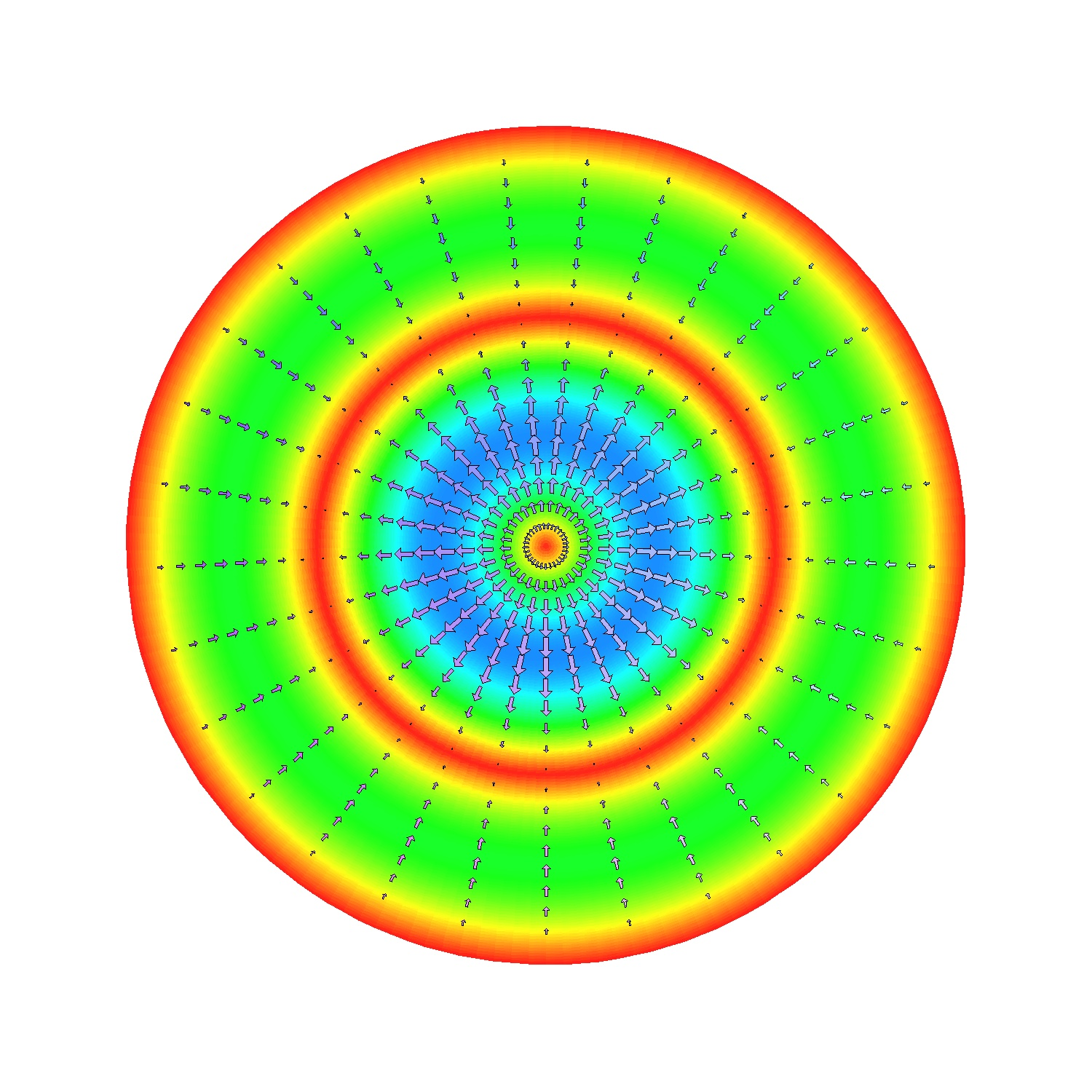 TE02 Mode plot in a circular waveguide.